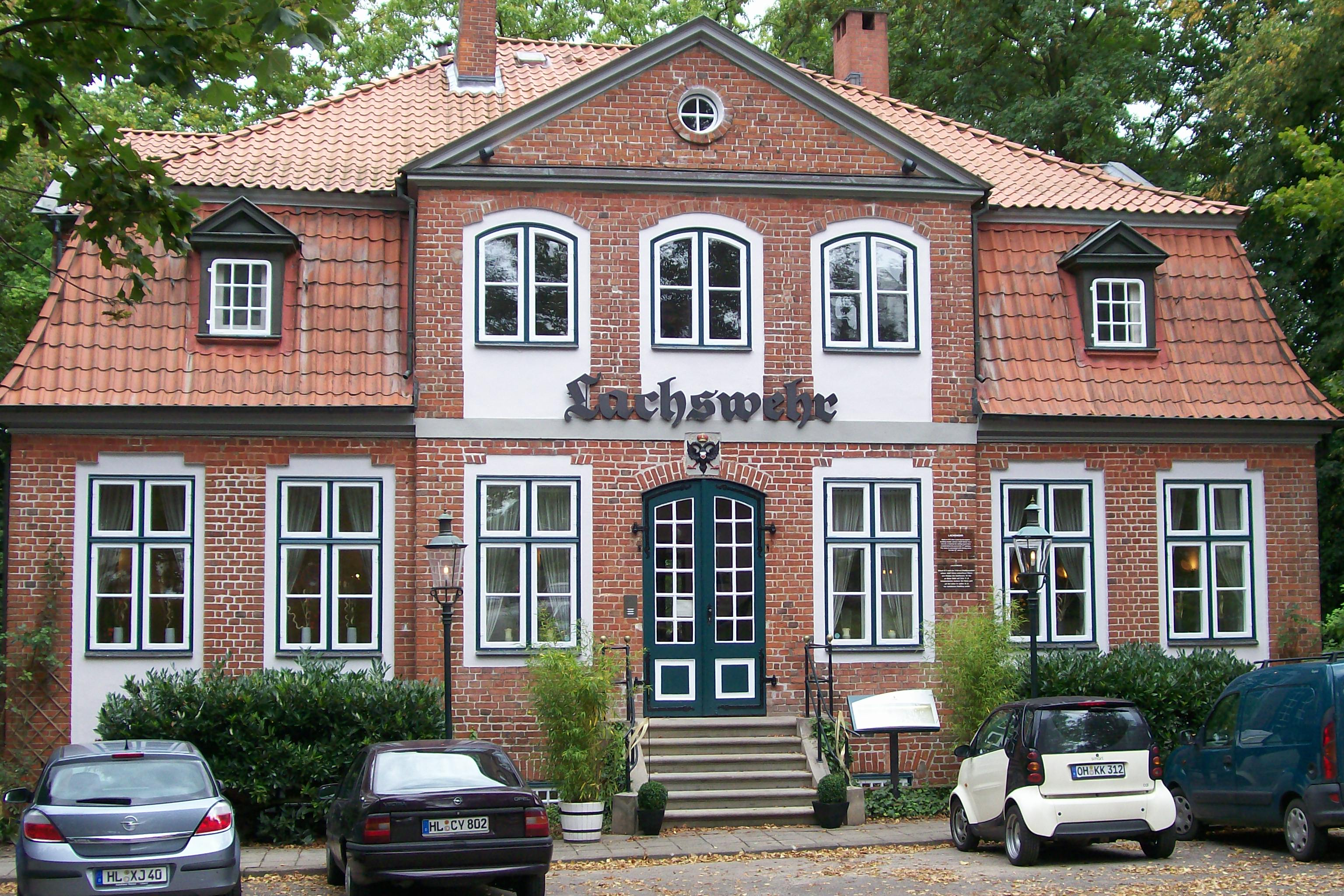 Lachswehr is a traditional restaurant in Lübeck built by Johann Adam Soherr in 1771 at river Trave